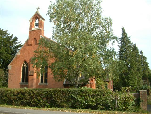 Church of England parish church of St. Michael & All Angels, Spencers Wood, Berkshire.